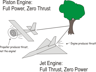 Power and Thrust of a piston aircraft and a jet aircraft if both are tied to a strong tree.